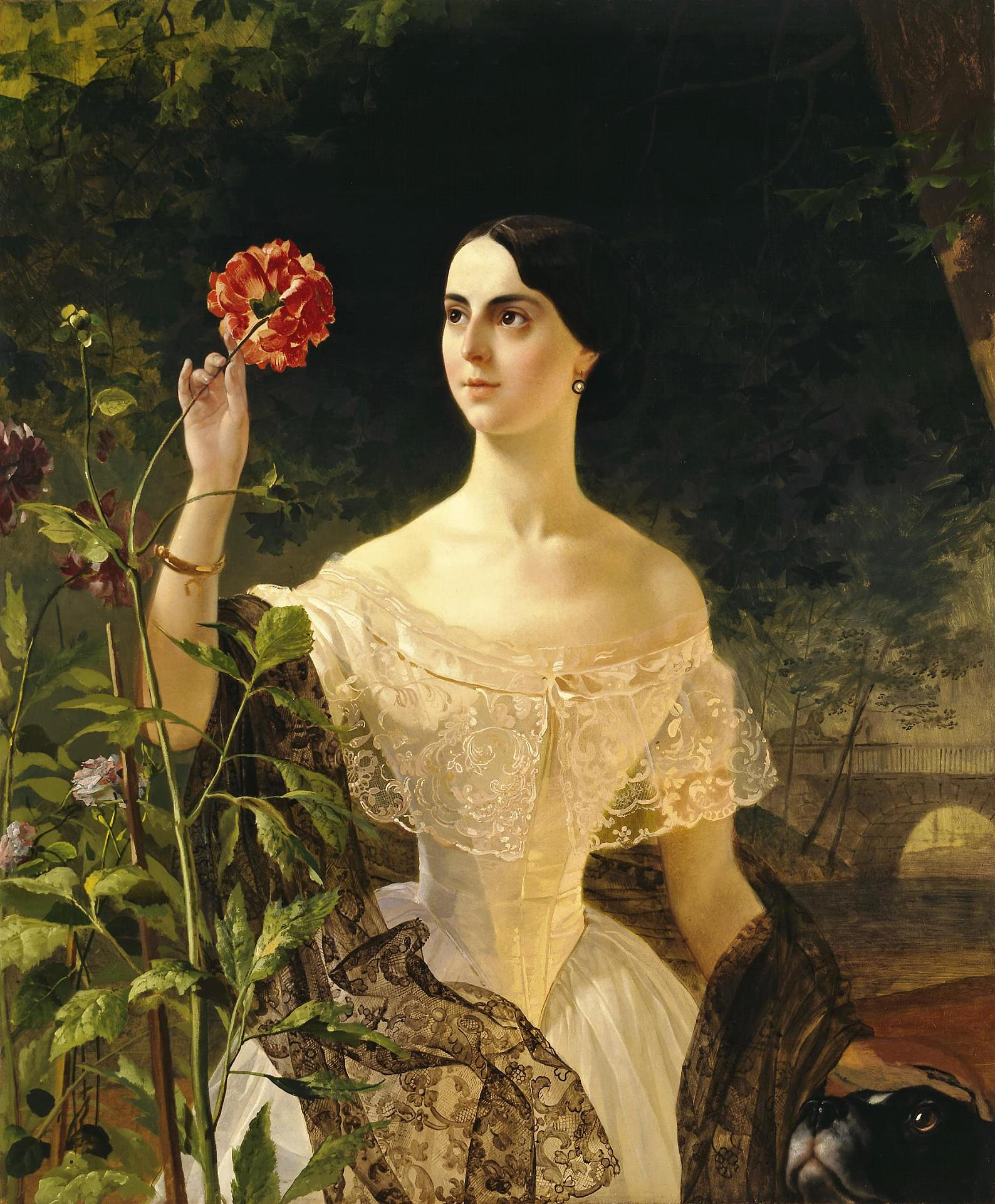 Portrait of Sophia Shuvalova (1829-1912)